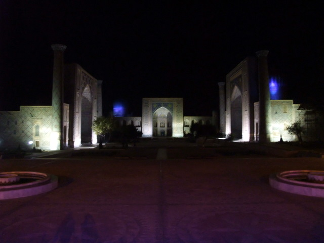 View of the Registan at night at Samarkand